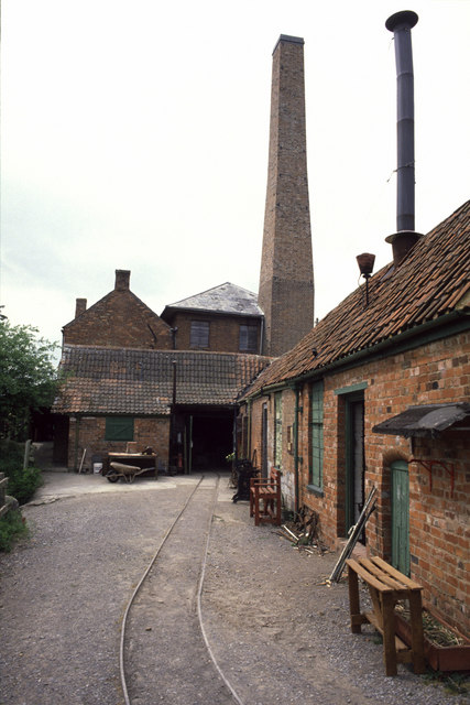 Westonzoyland Pumping Station One of the Somerset Levels drainage stations. Has an 1861 steam engine driving an Appold centrifugal pump. The only workable in situ example (but the pump is now dry).